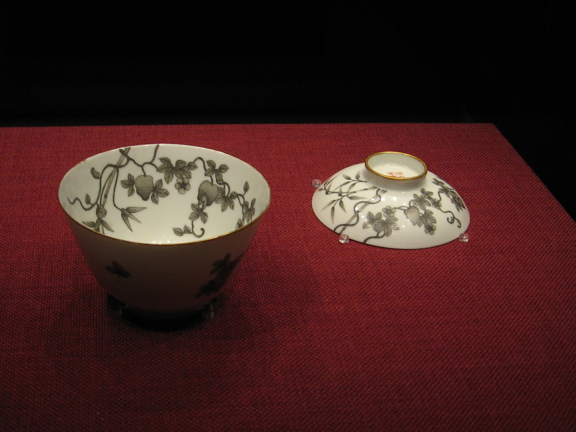 Black-colored bamboo and butterfly bowl. Porcelain made for the wedding of Tongzhi Emperor.